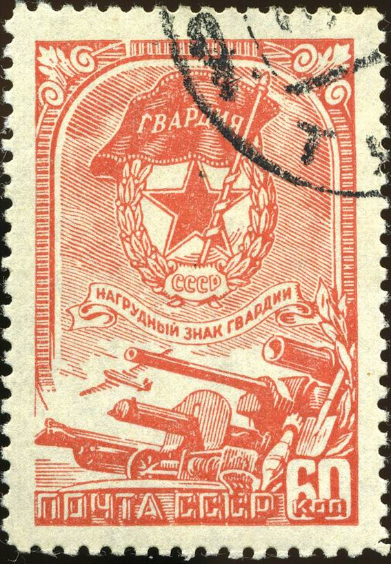 A USSR stamp, Awards of the Soviet Union